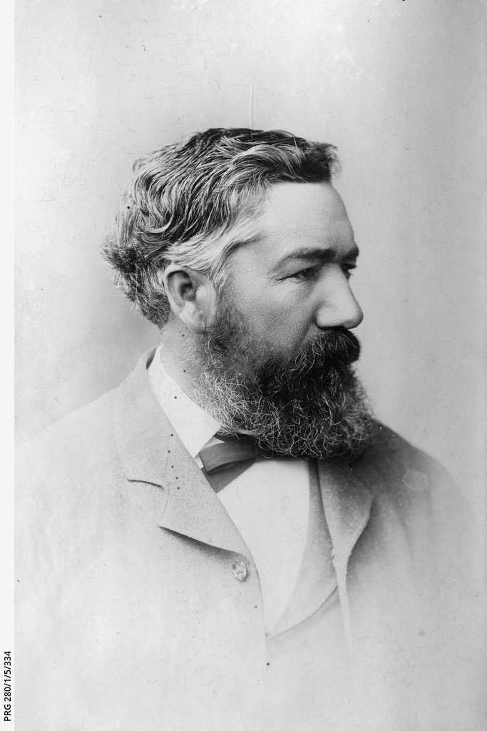 Robert Caldwell, M.P. Chairman of the Pastoral Lands Commission. Original held at Parliamentary Library, 1891